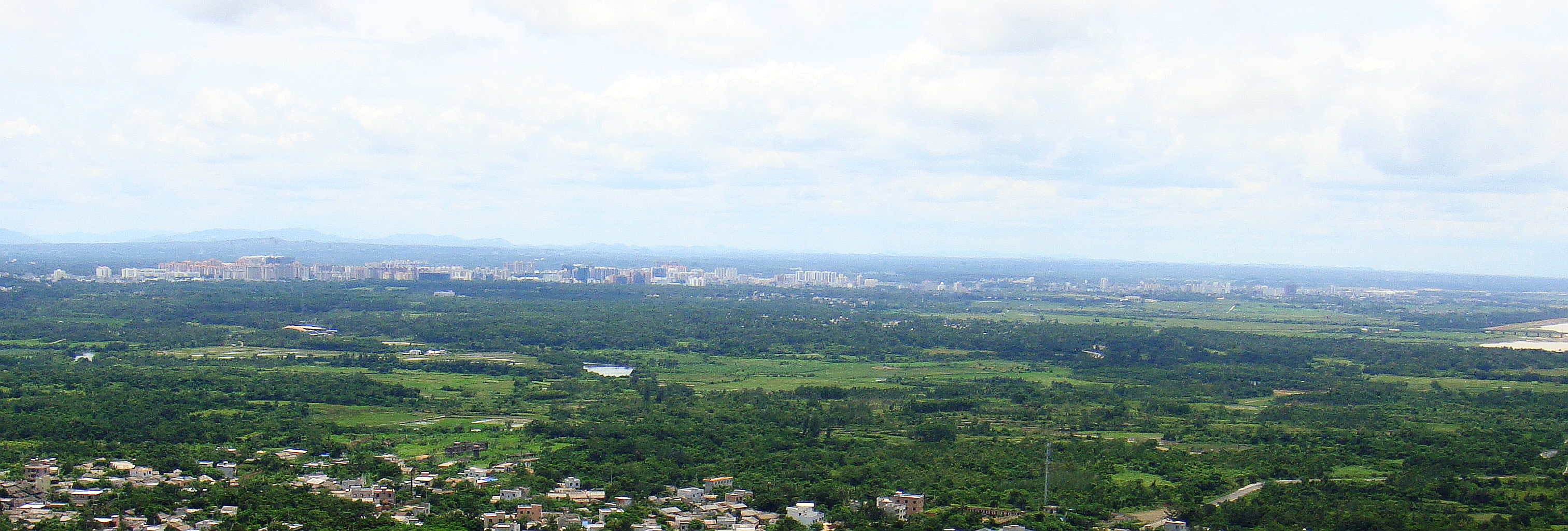 Ding'an new and old town skyline, Hainan, China